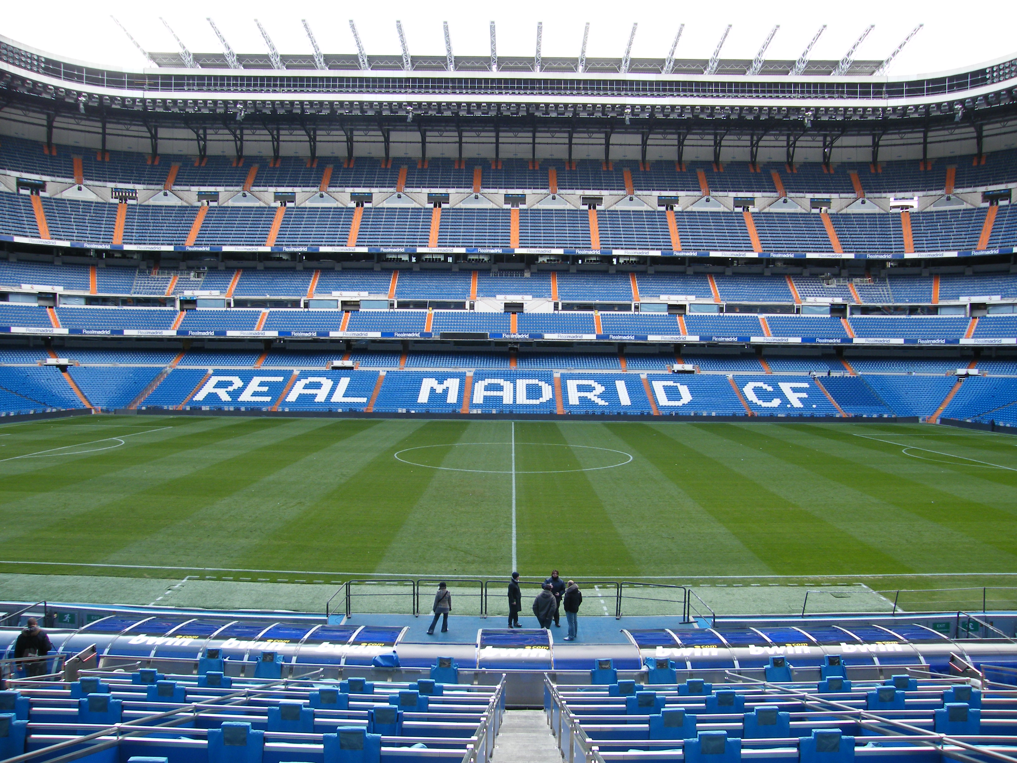 The Santiago Bernabeu Stadium in Madrid - Spain - Home of Real Madrid